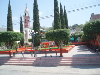 el valenciano